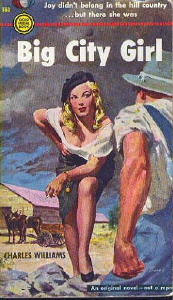 Description: Low-resolution image of cover of the novel Big City Girl (1951), written by Charles Williams